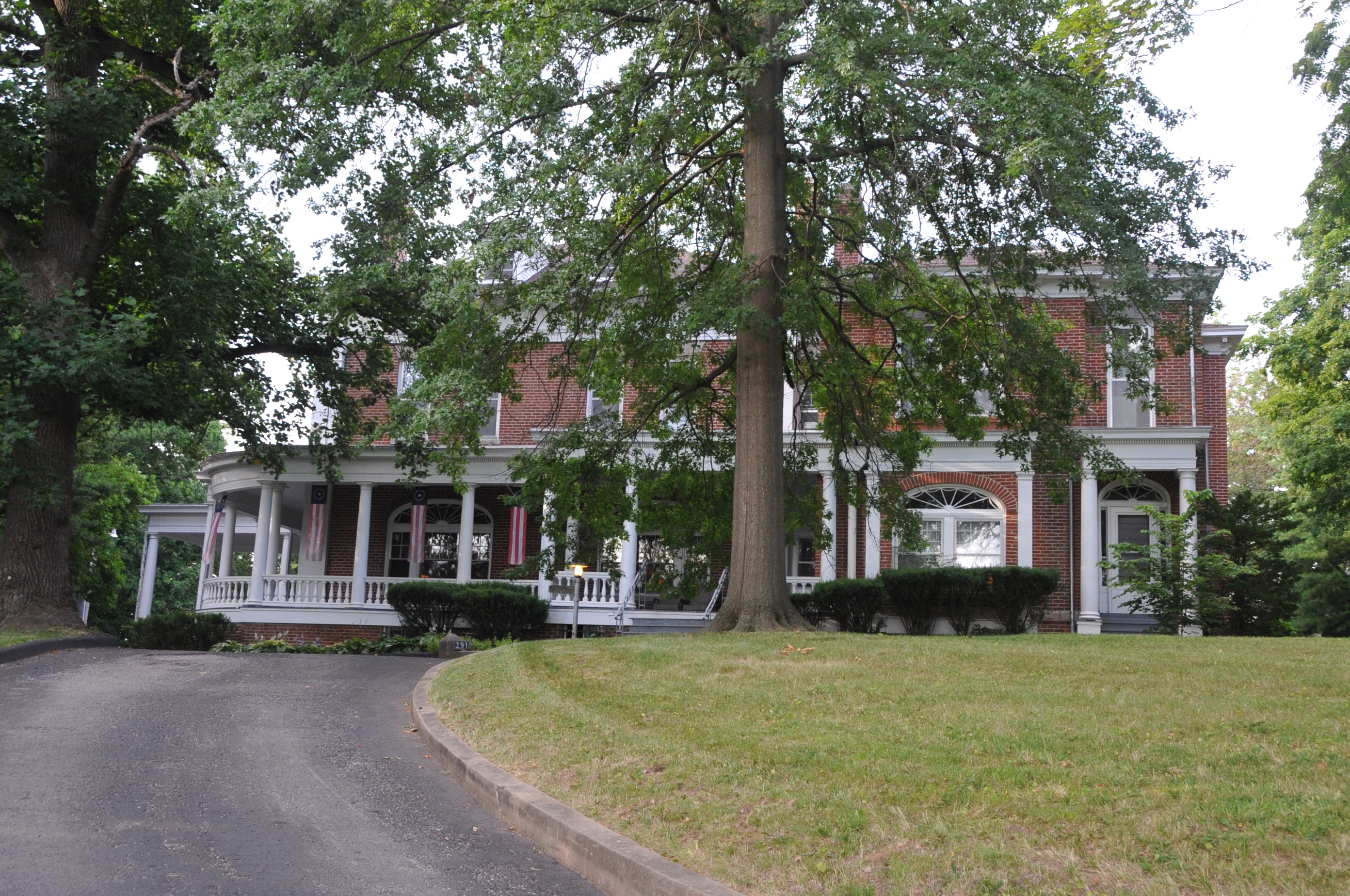 STARTED AS A SIMPLE FARMHOUSE IN THE 1880’S BUT WAS INCREASED BY THE MILLERS BY 1900 INTO A 13 ROOM MANSION WITH 9 CHIMNEYS.